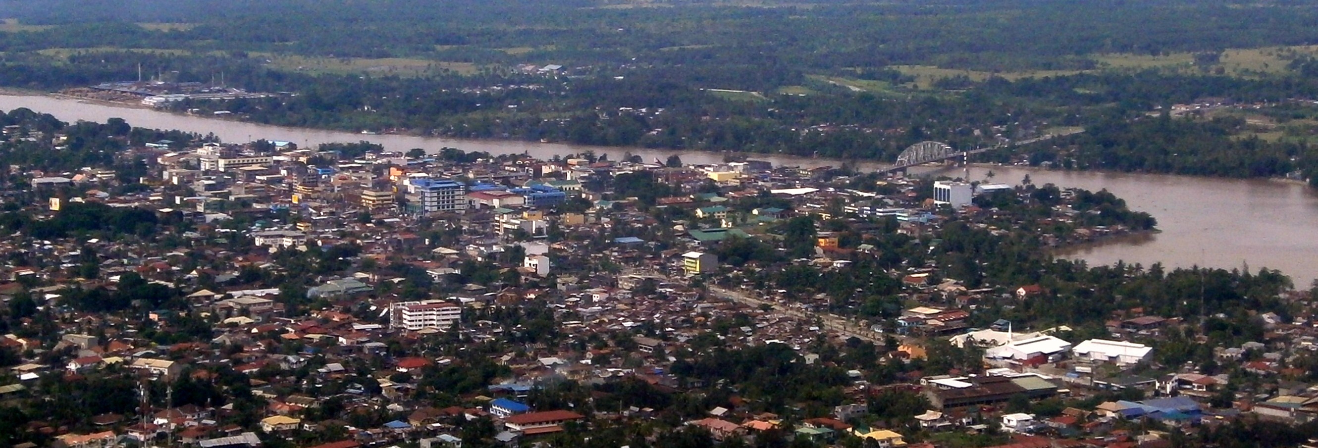 An aerial picture of Butuan, taken at around 3 pm, Apr 13 2013.